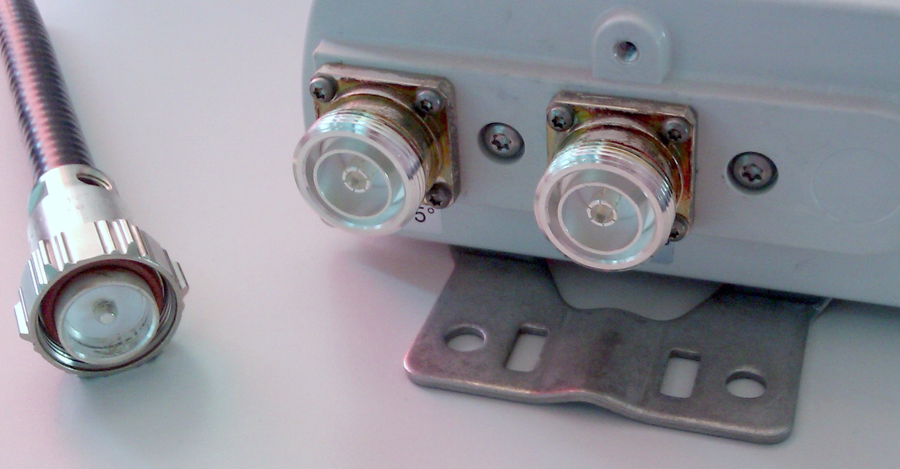 7/16 connector and antenna